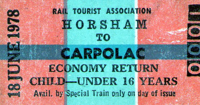 Horsham-Carpolac rail ticket 1978